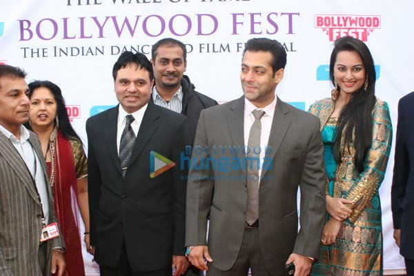 Salman Khan and Sonakshi Sinha at the 'Bollywood Fest' in Norway for promoting Dabangg.